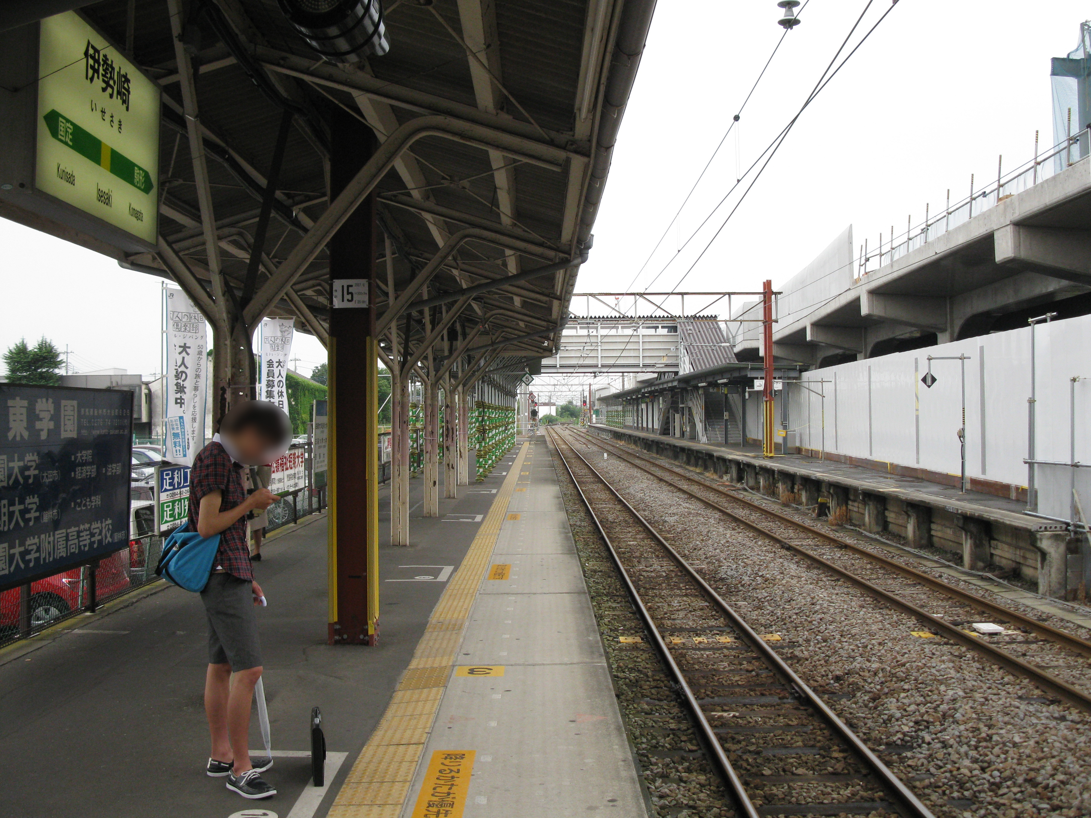 The Takasaki-bound platform at Isesaki Station on the East Japan Railway Ryōmō Line in Isesaki city, Gumma prefecture, Japan